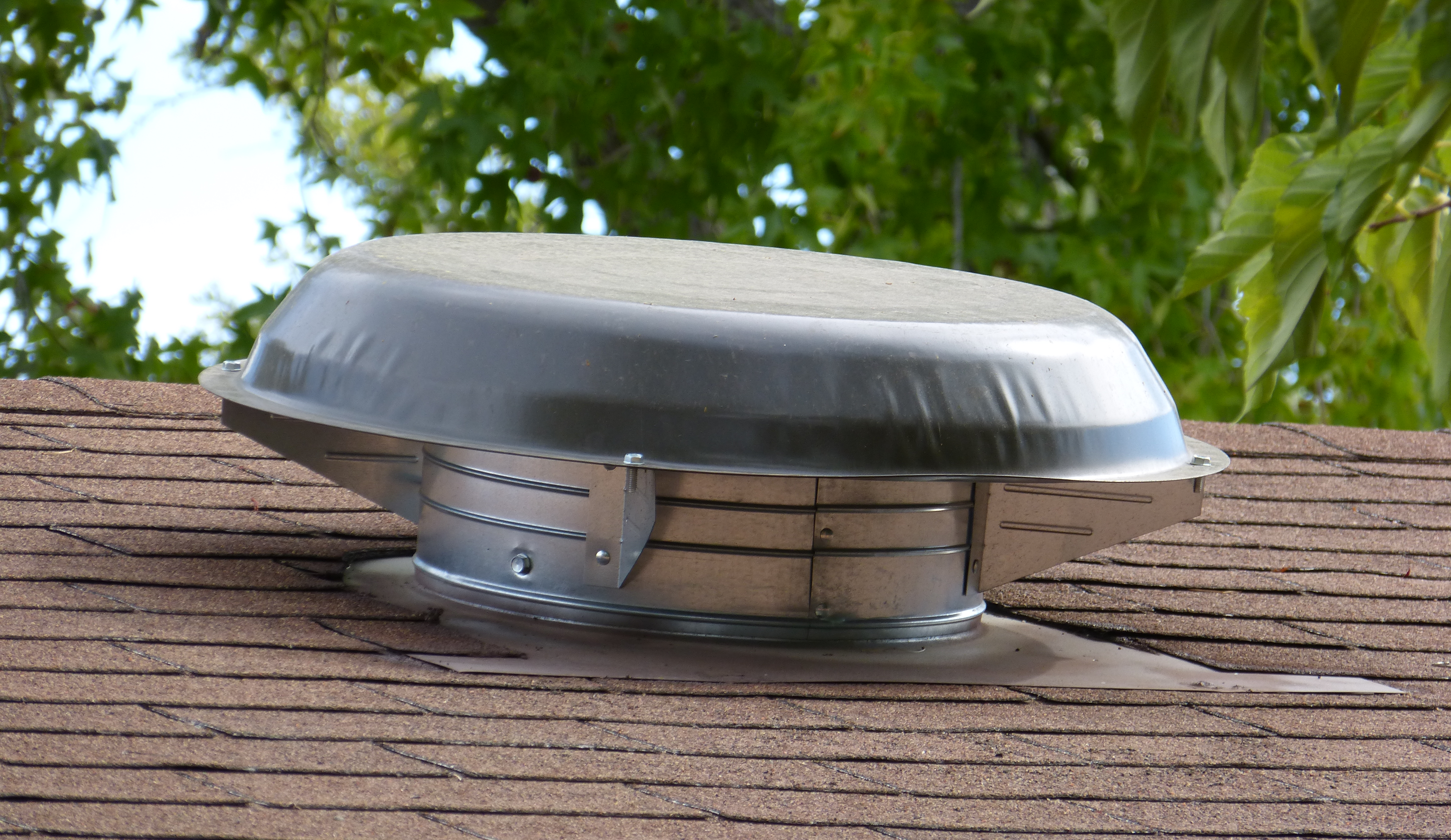 A weatherproof cap covering an attic fan on a sloping roof.